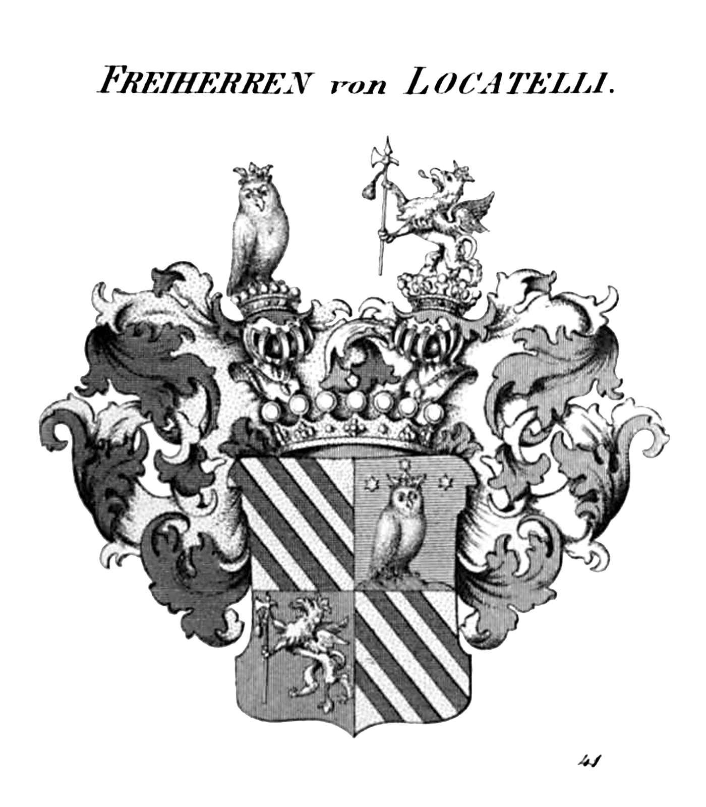 Coats of Arm of Locatelli (Barons, Austria)